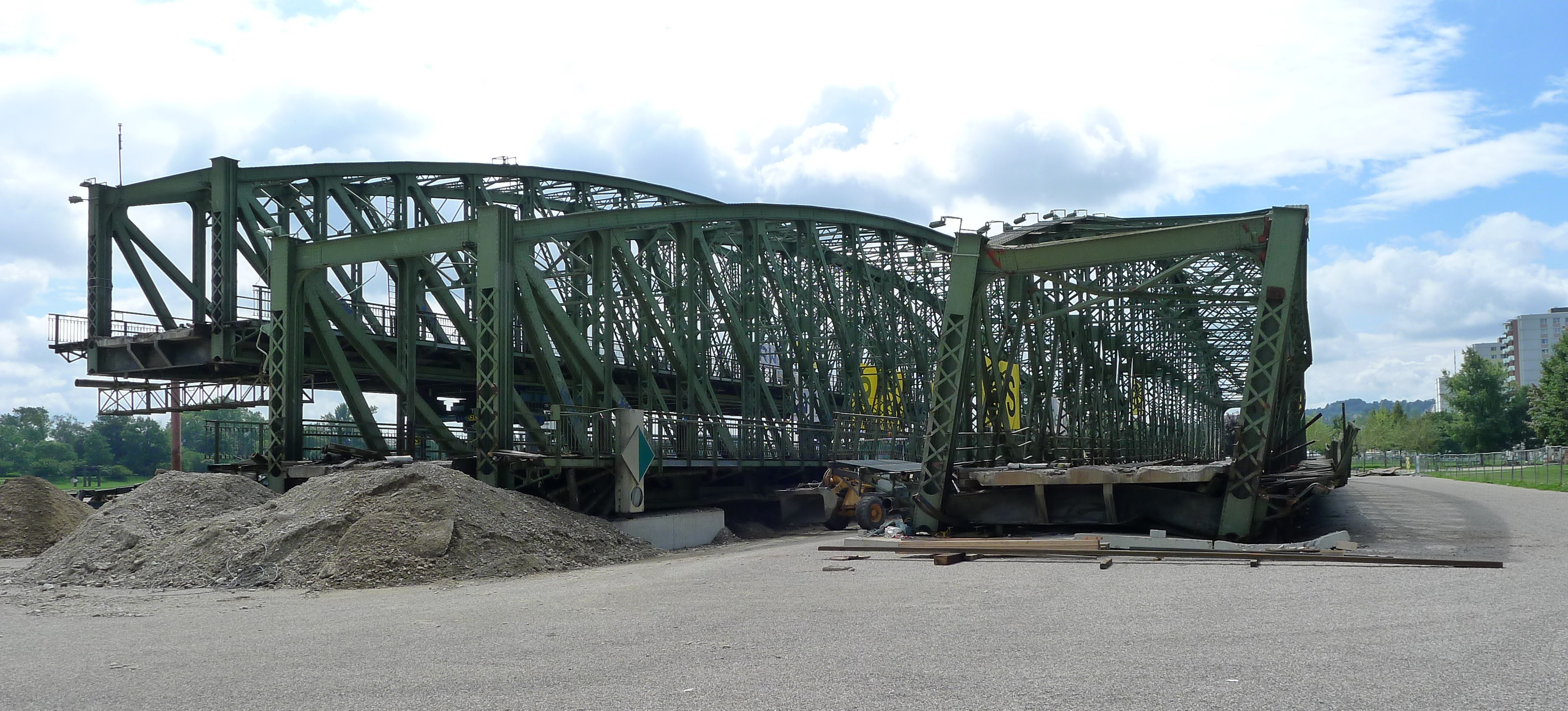 Demolition of Linz Railway Bridge - the 3 main bridge segments on the riverside